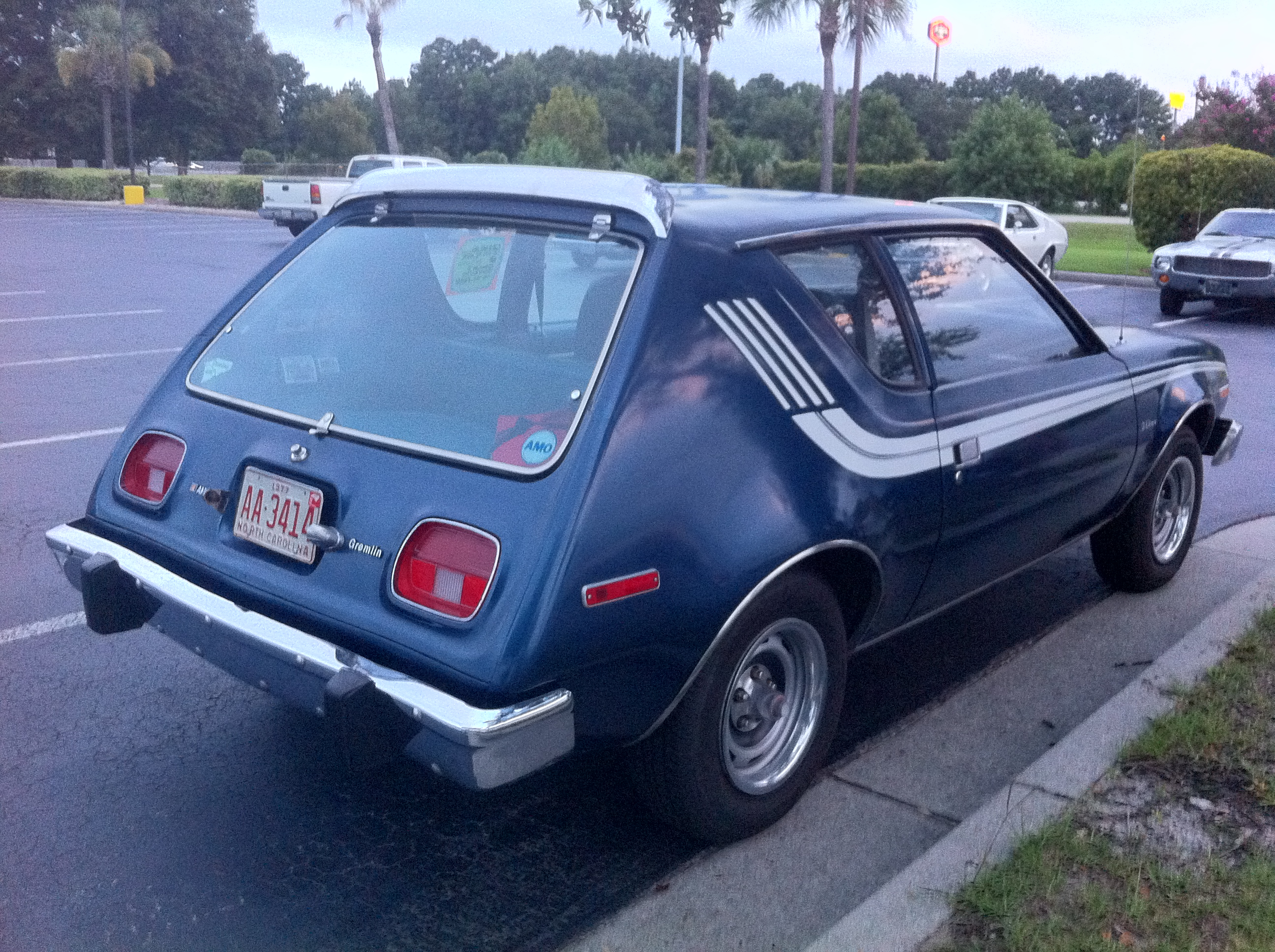 1977 AMC Gremlin 2 Liter Custom. A sub-compact automobile manufactured by American Motors Corporation (AMC). This car has the optional carbureted four-cylinder engine (standard was AMC's 232 cu in (3.8 L) straight six that was only available with the "Custom" package. This engine is a version of the Volkswagen/Audi 2.0 L (120 cu in) inline-four that was also used in the Porsche 924 with fuel-injection. Photographed at the 2014 American Motors Owners (AMO) convention that was held in North Charleston, North Carolina, USA.